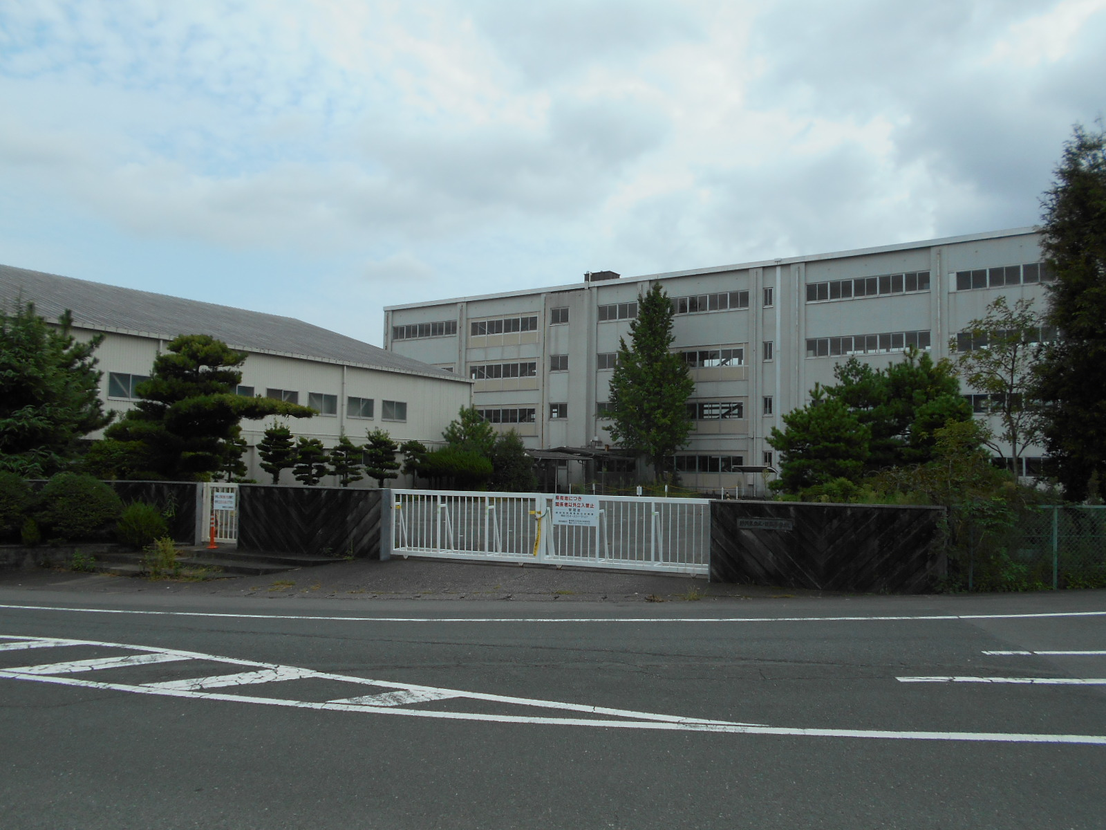 Shizuoka Prefectural Mikkabi High School